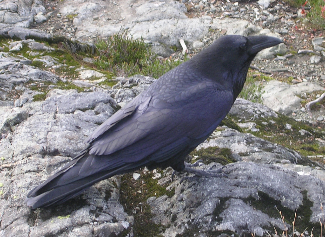 A Common Raven at Cypress Provincial Park, British Columbia